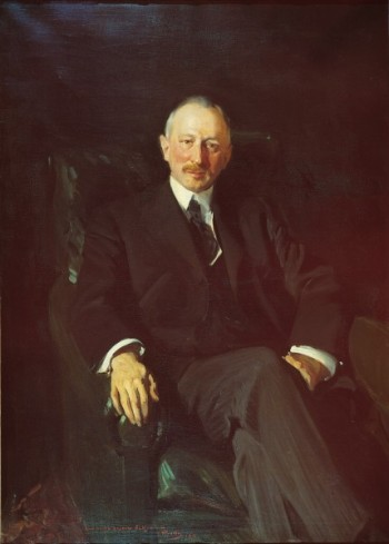 Gentleman seated in an armchair